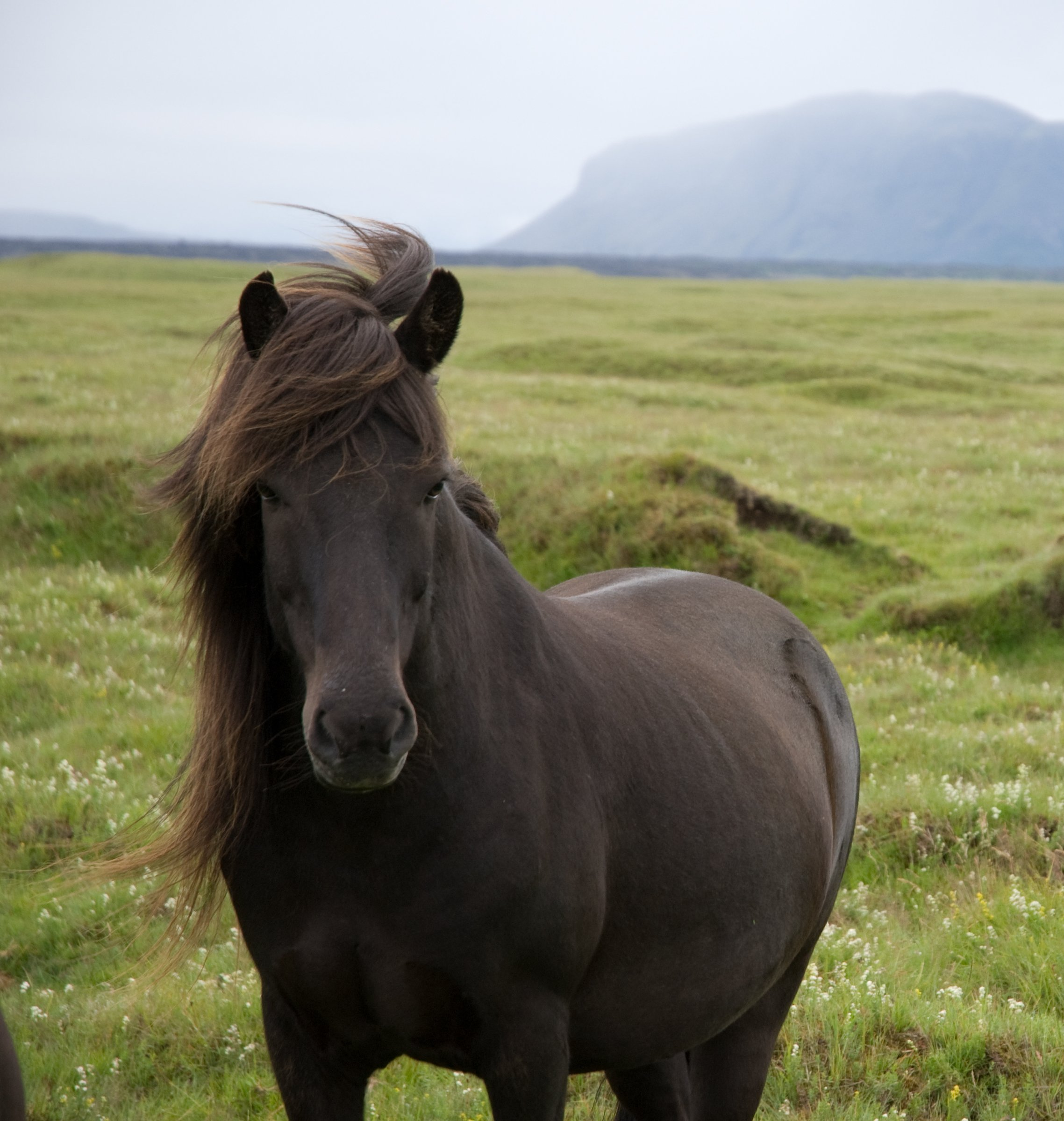 Icelandic ponies are beautiful and good-natured...